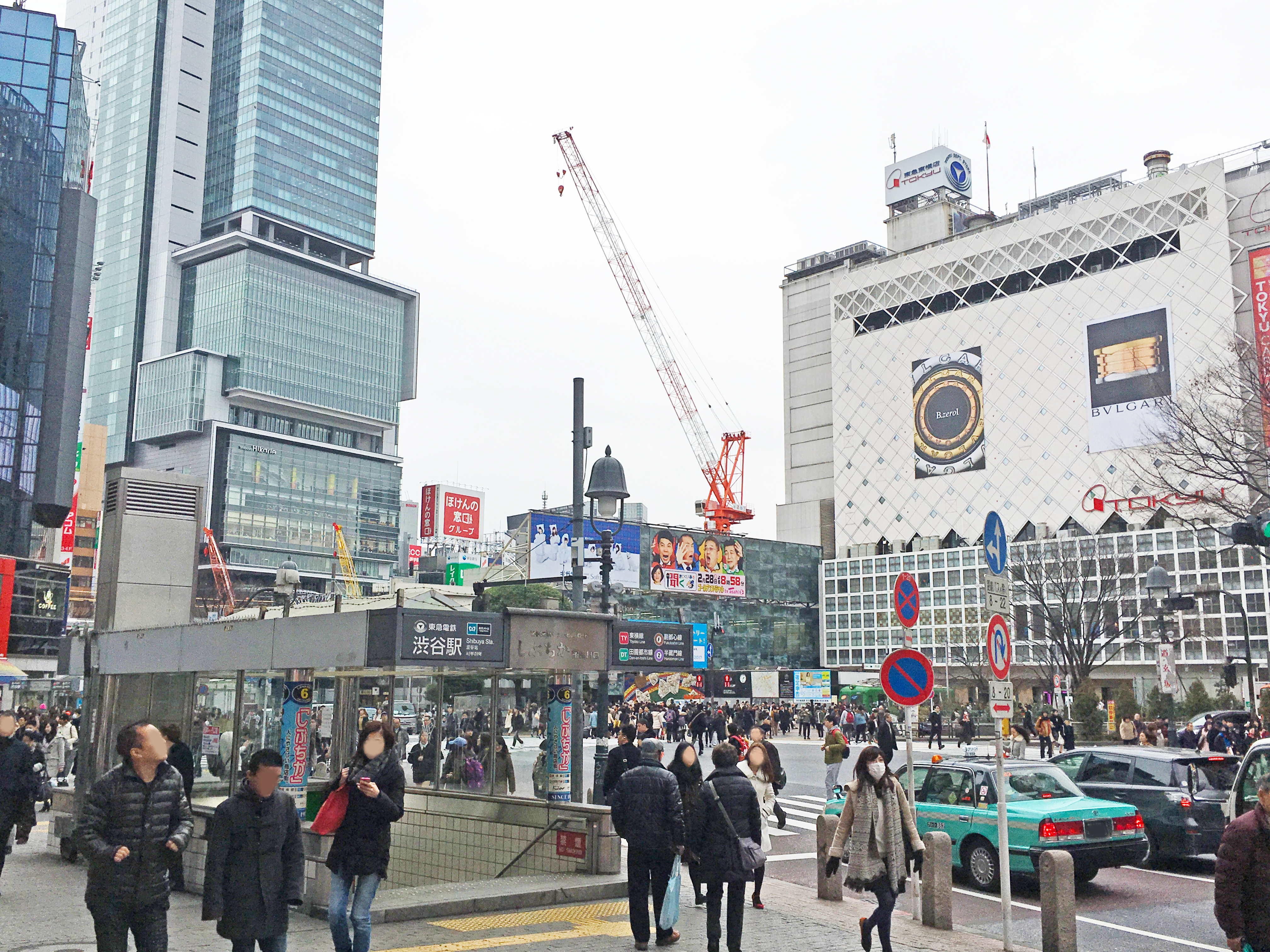 Shibuya Station